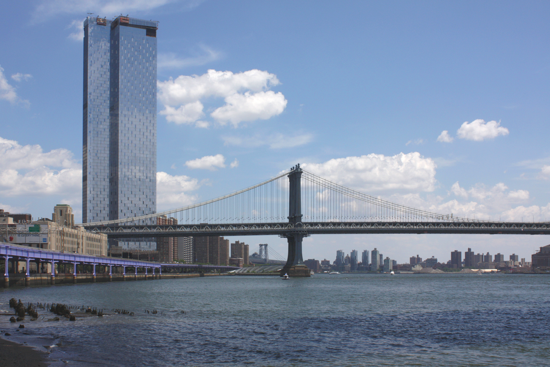 One Manhattan Square and Manhattan Bridge, Manhattan, New York, United States